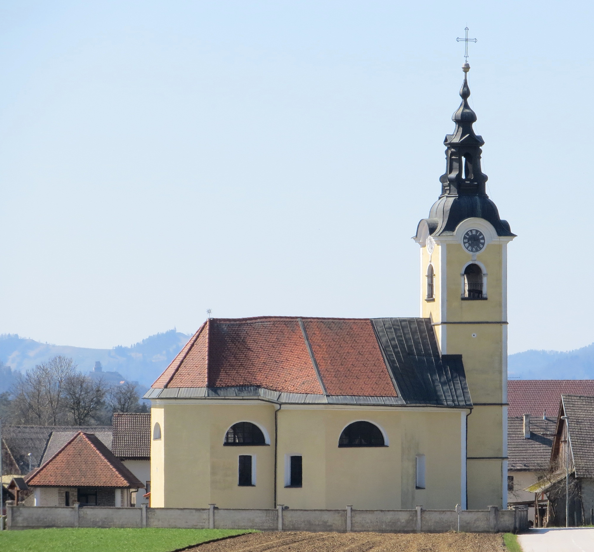 Saint Florian's Church in Lahovče, Municipality of Cerklje na Gorenjskem, Slovenia